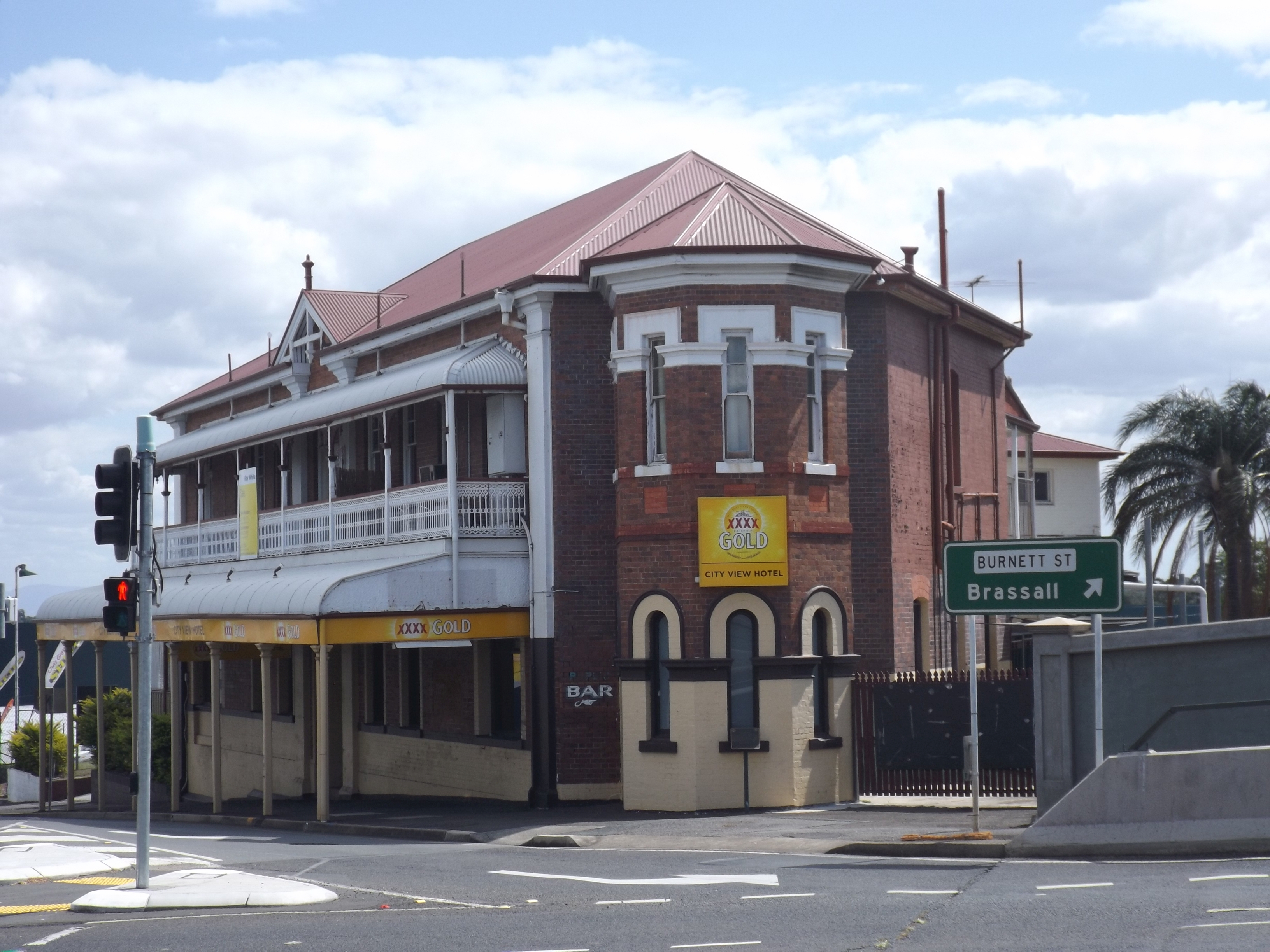 Photo of the City View Hotel in West Ipswich, Queensland, Australia.